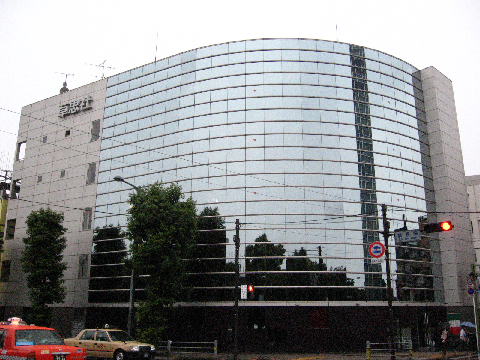 Soushisha Former Headquaters in Sendagaya, Shibuya-ku.